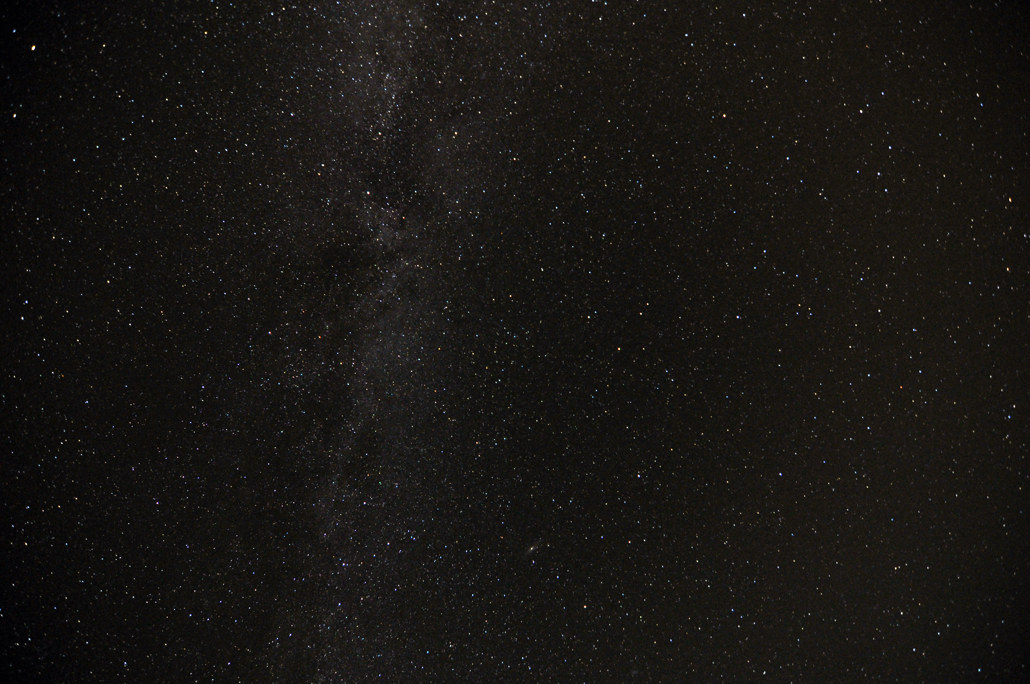 digital photograph of Vermont night sky, 11mm, f2.8, iso 450, 30s shutter